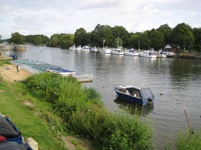 River Thames at Hampton Court Bridge. Viewed looking upstream from the bridge, with Molesey Lock just visible on the left, this is a repeat of Colin's 256385 from 1998. Remarkably the same blue-hulled launch appears to be moored in the same place. The centre of the river forms the boundary between the London Borough of Richmond upon Thames to the right and Elmbridge Borough Council on the left.